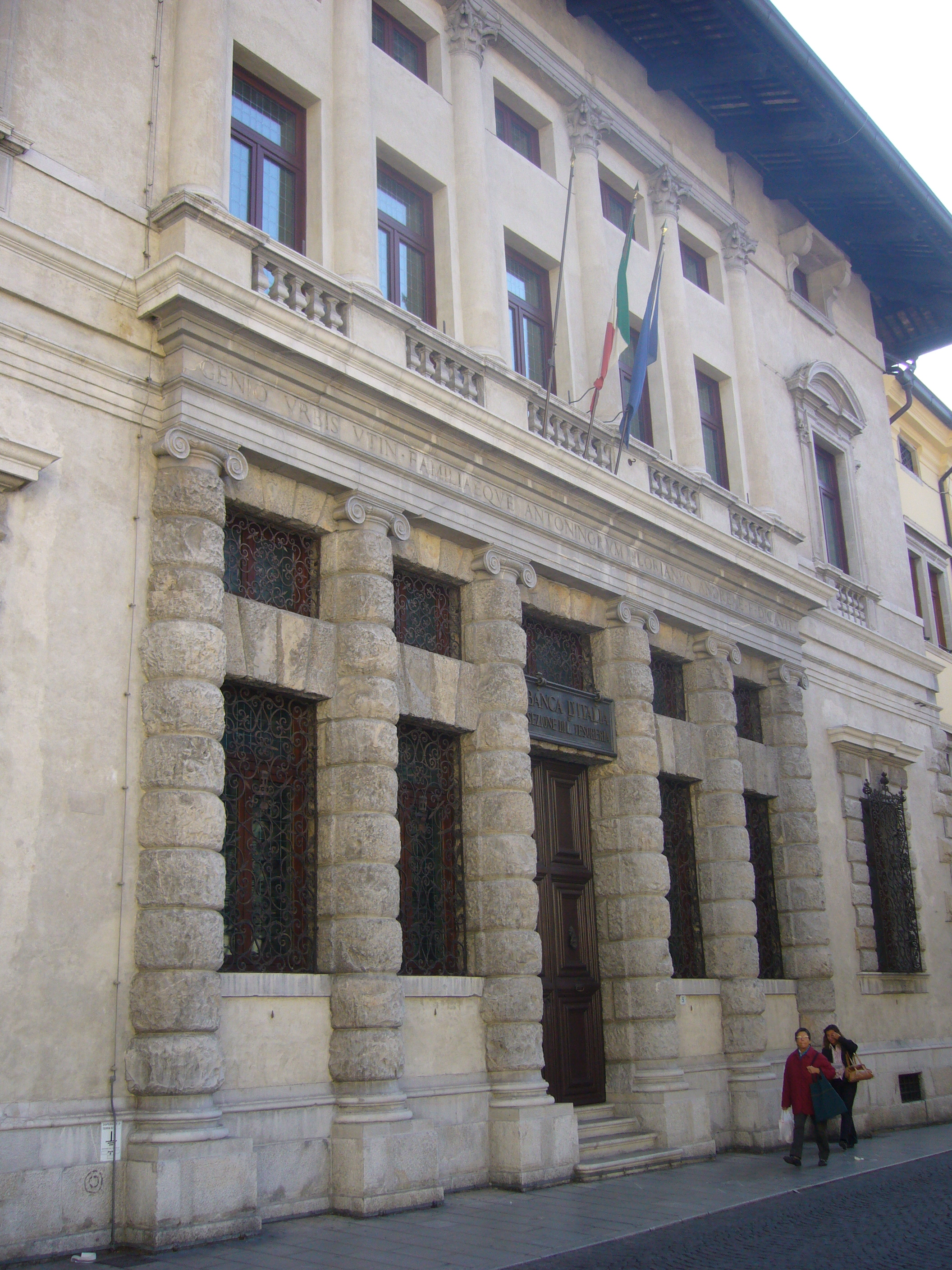 Bank of Italy, office in palace Antonini designed by Andrea Palladio in the middle of 16th century.